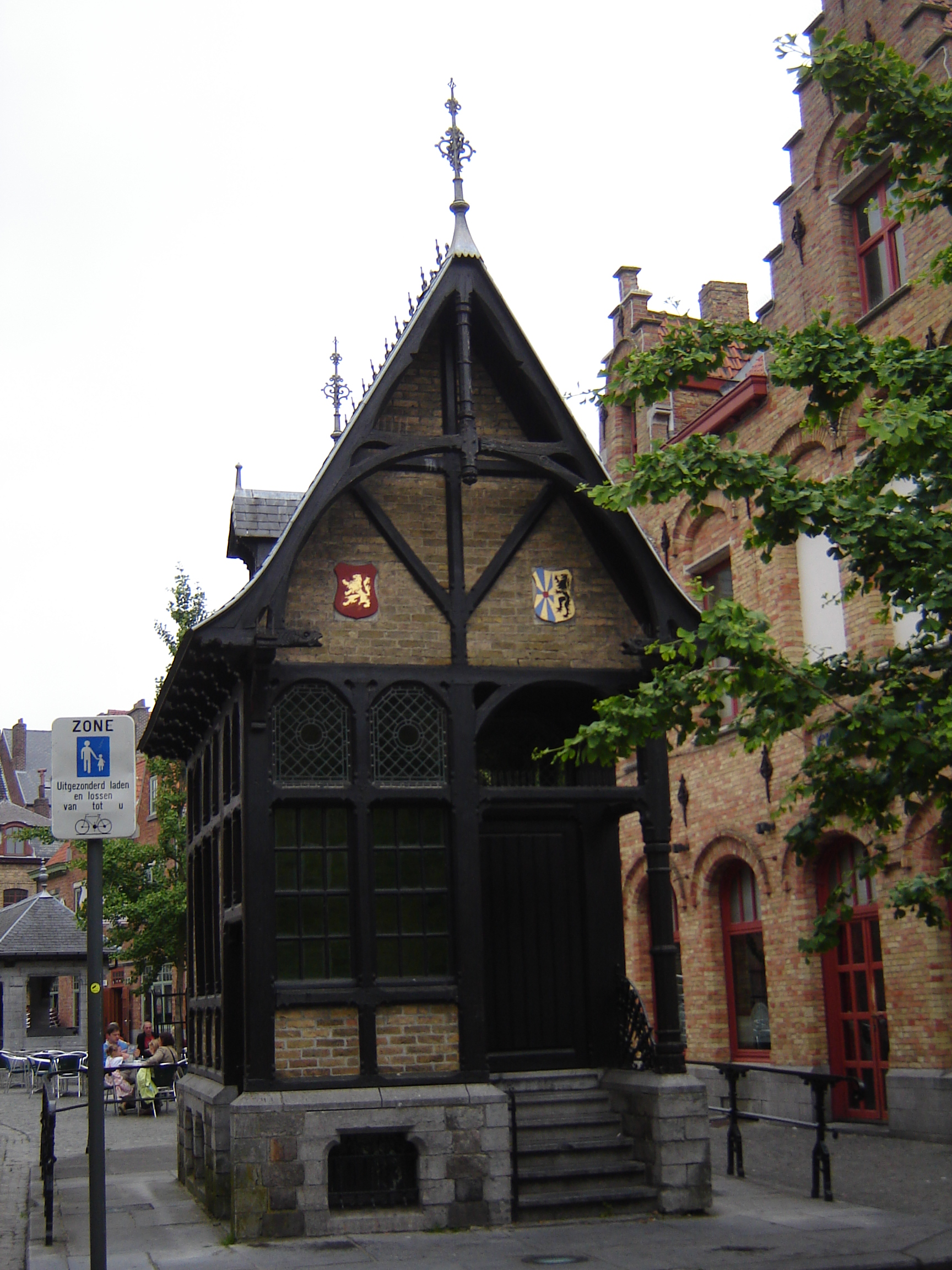 Vismarkt (Fish Market) square in Ieper, West Flanders, Belgium